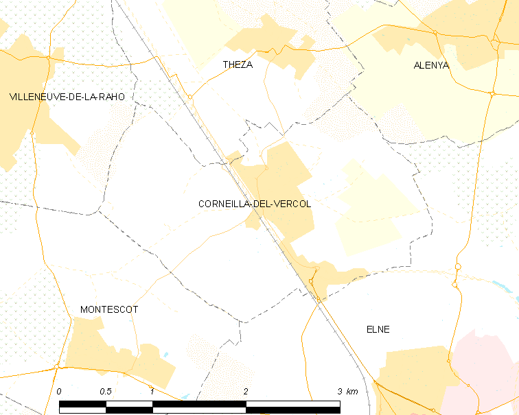 Map of French municipality